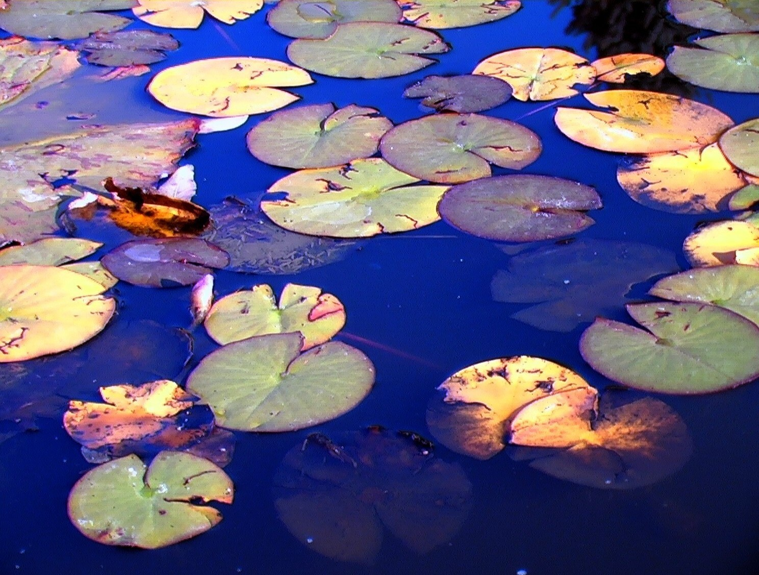 Water garden with lilies. Broadmoor Hotel, Colorado Springs, Colorado (October 2006). Photo by Peter Rimar.